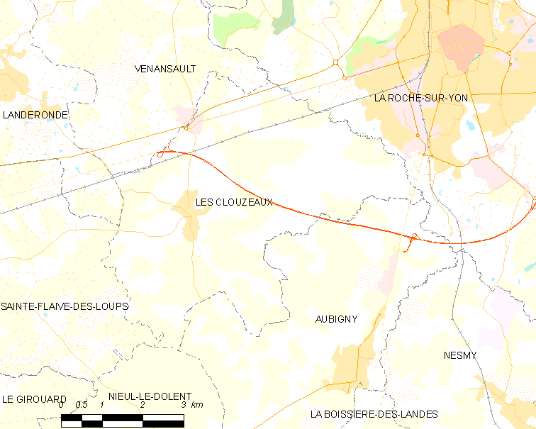 Map of French municipality Les Clouzeaux